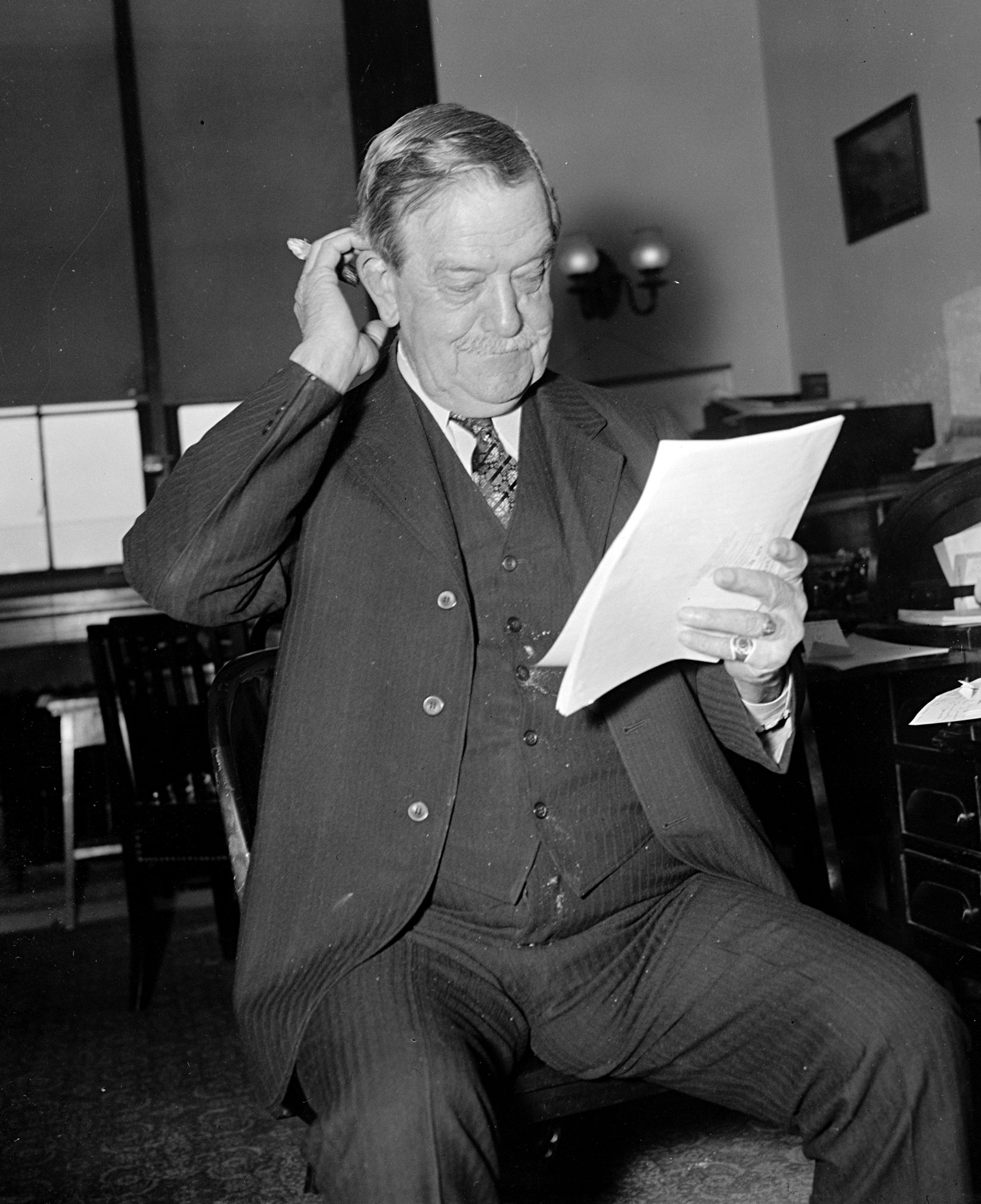 Ellison D. Smith, US Senator from South Carolina